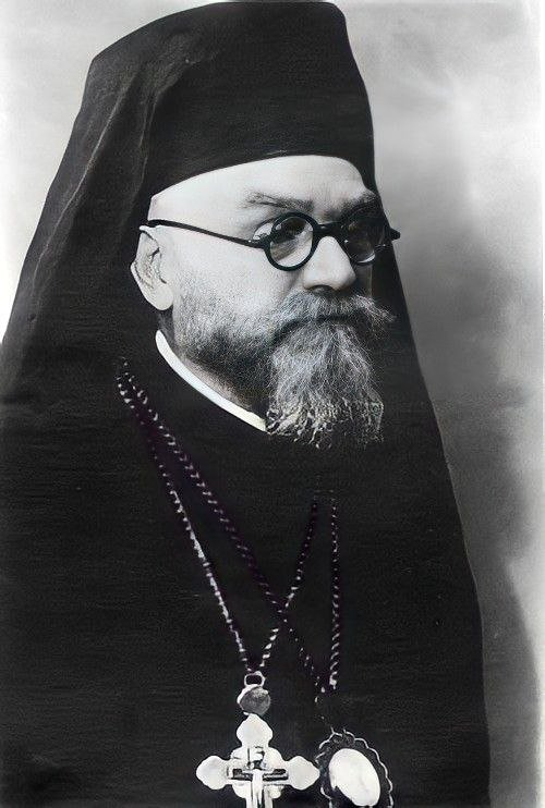 Portrait Of Bishop Saint Gorazd (Pavlik) Of Prague (1879 - 1942).